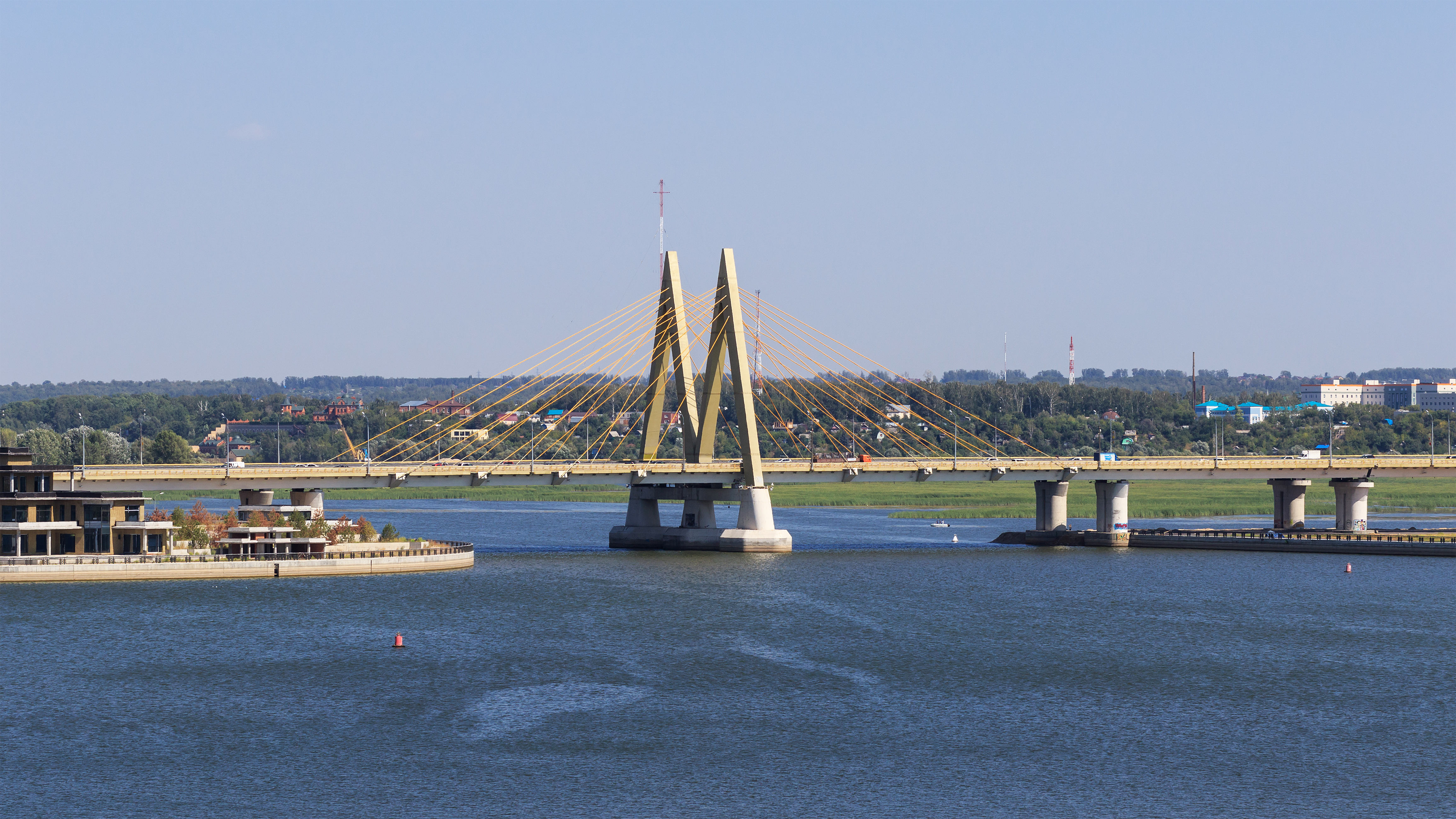 The Millennium Bridge (central part) in Kazan, Russia